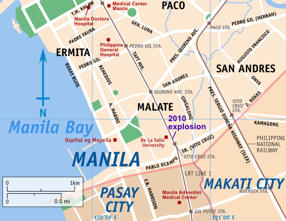 Map showing the location of the w:2010 De La Salle University explosion, De La Salle University, and the hospitals where the victims were brought.